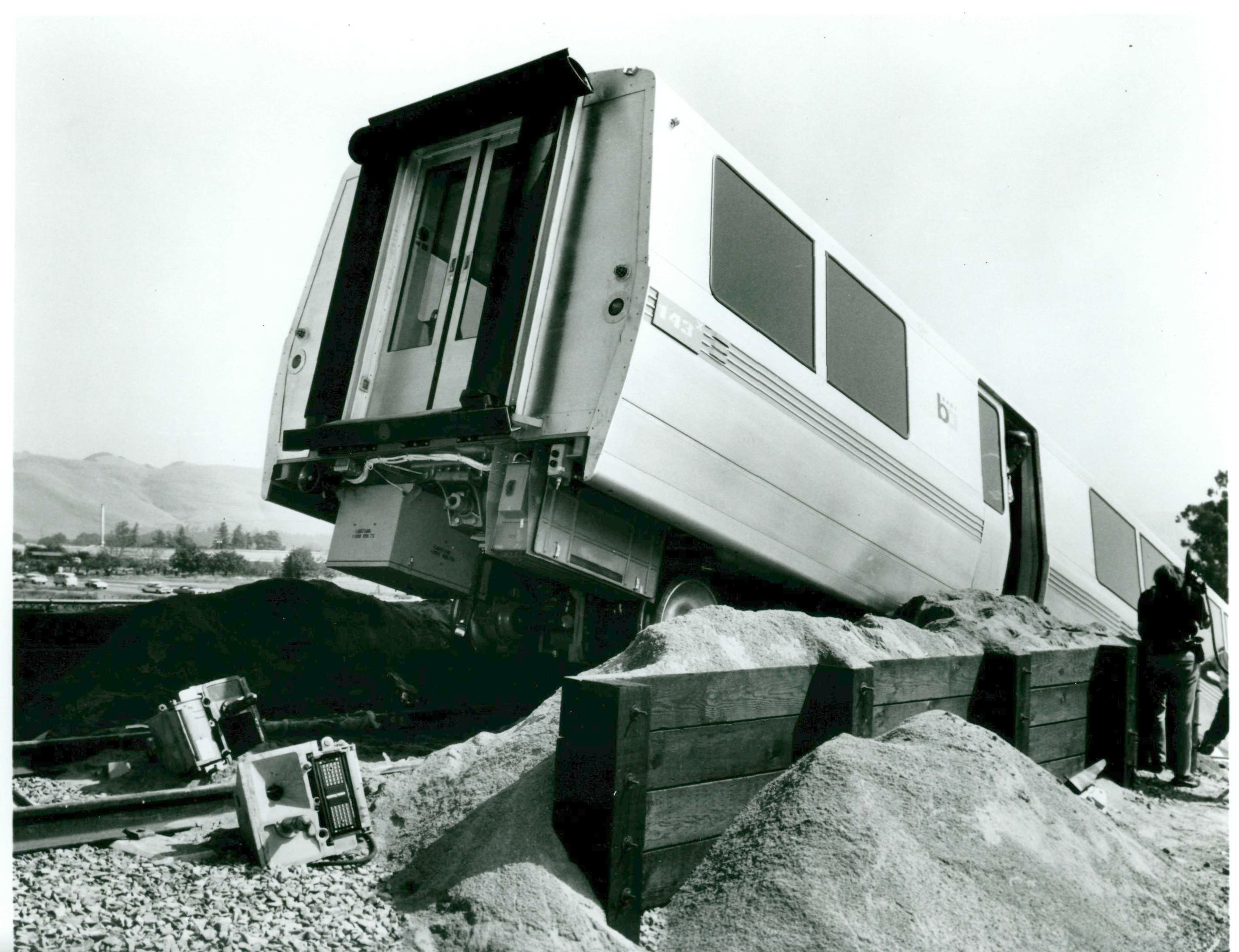 The "Fremont Flyer" - a BART train that overshot Fremont station in October 1972 and partially fell down an embankment.